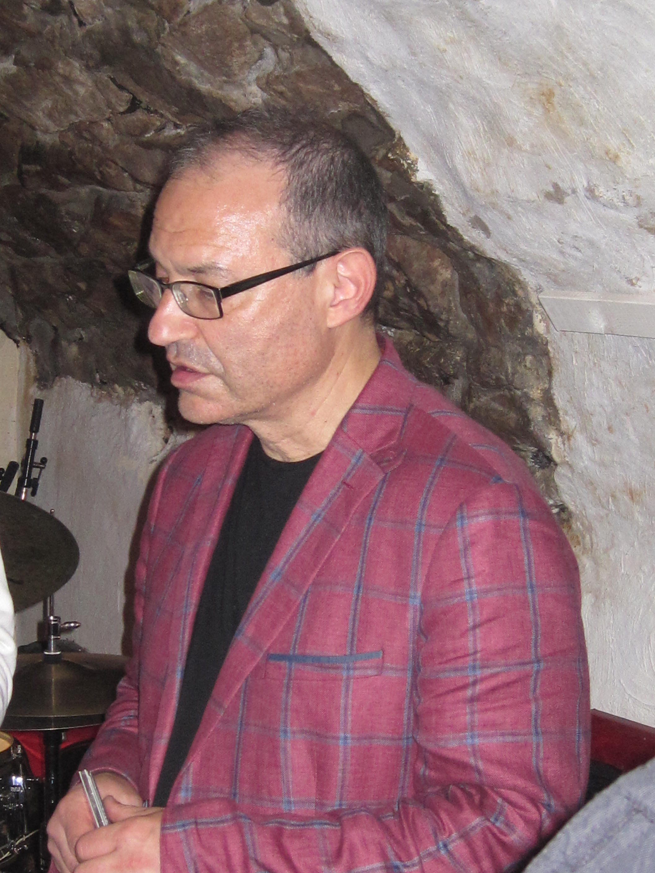 American jazz clarinetist Ben Goldberg after concert at jazz club Cavete, Marburg, Germany in may 2018.